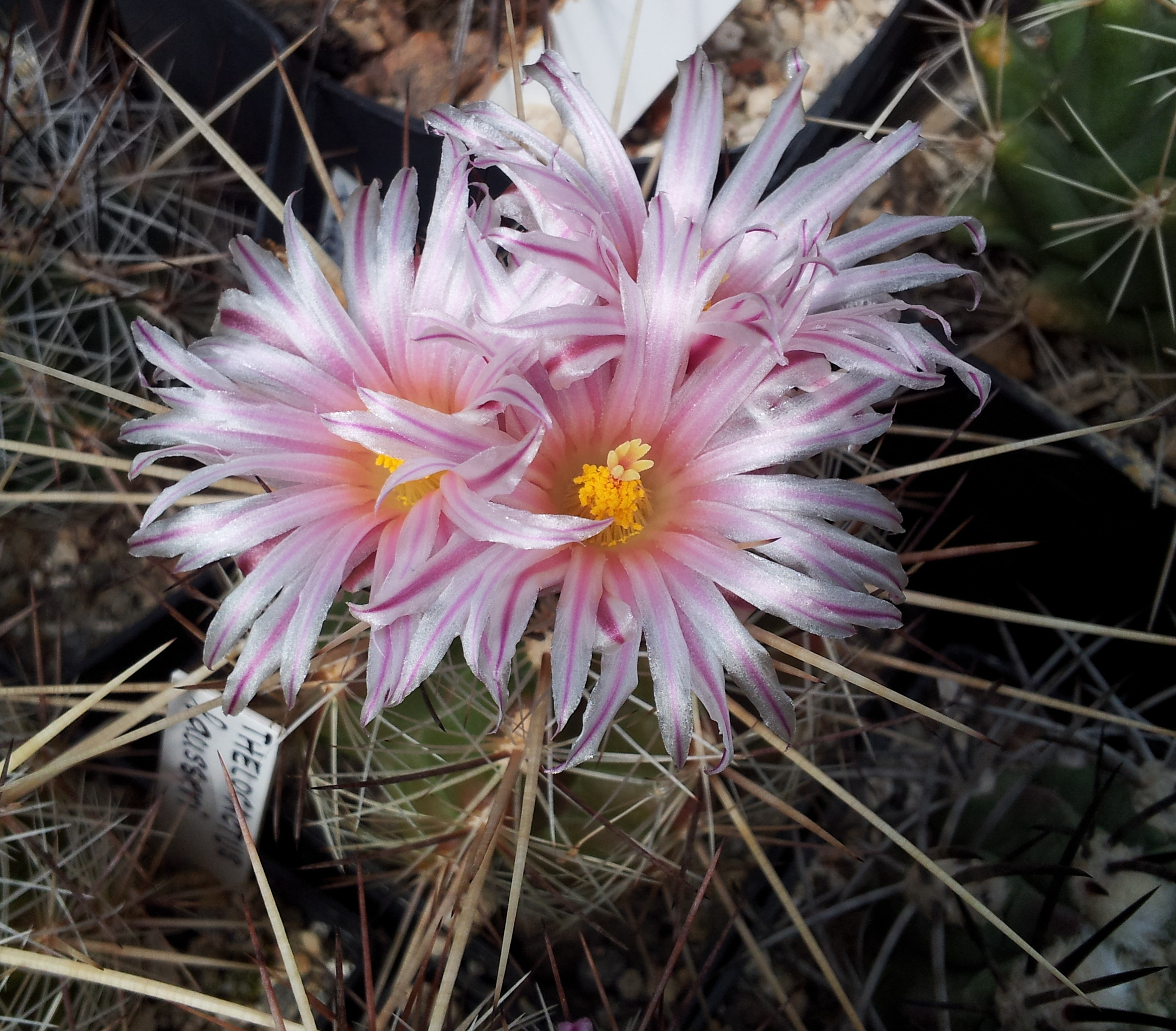 Thelocactus lausseri